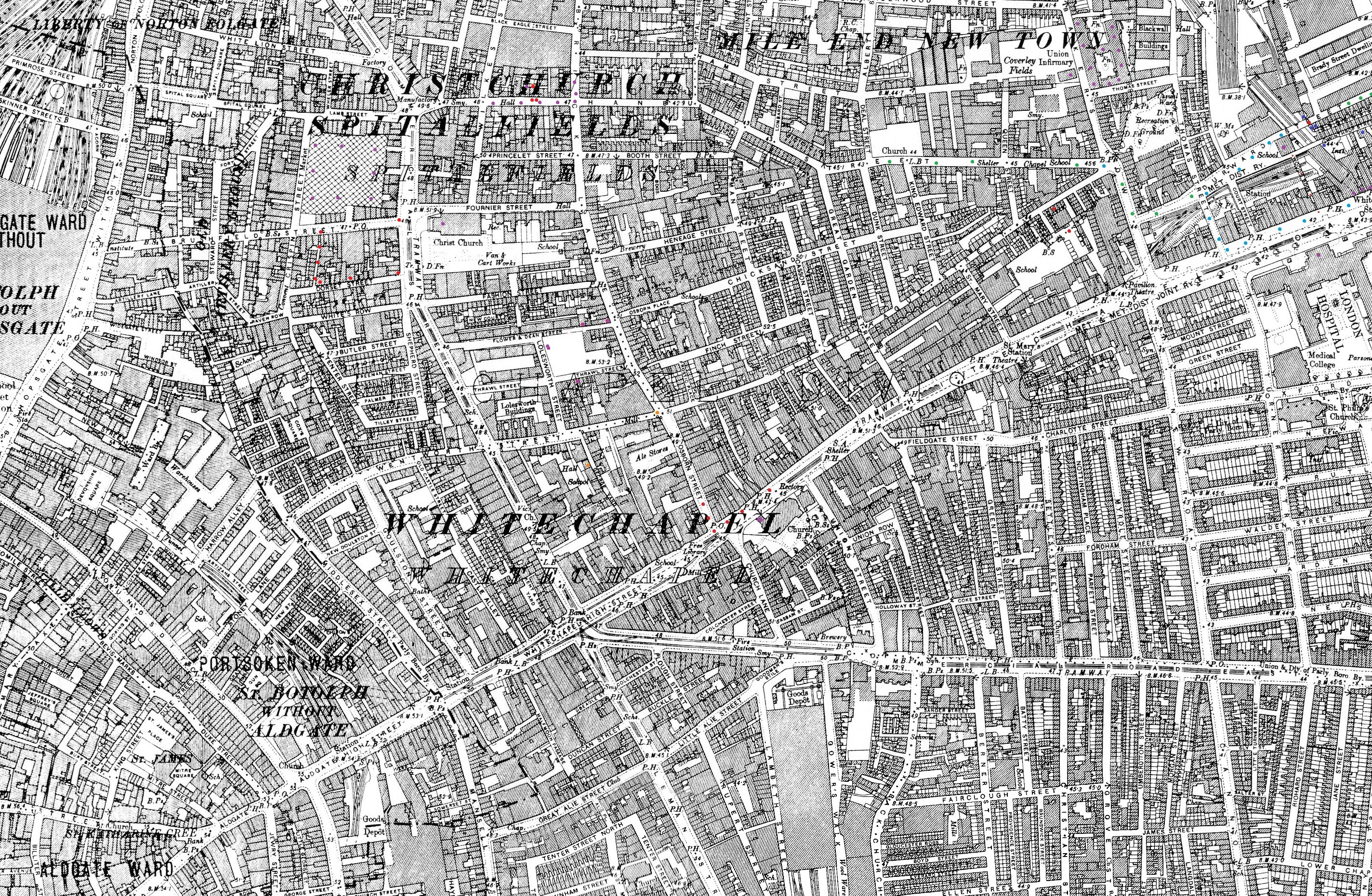 Ordnance Survey Map of Whitechapel. Plan de Whitechapel, Londres, publié en 1894 par l'Ordnance Survey. Image modifiée pour légendage (concernant Annie Chapman)